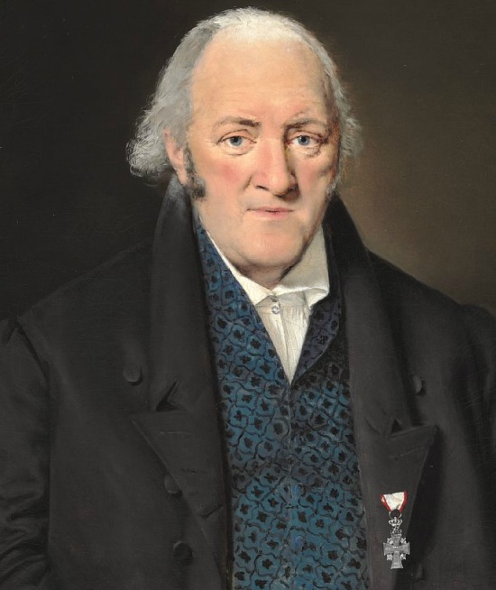 The businessman Lauritz Holmblad, founder of Denmark's first paint factory